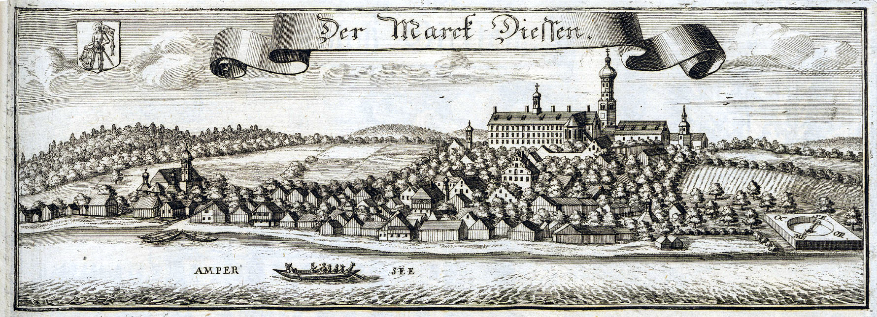 Markt Dießen, aus: Historico-topographica descriptio Bavariae, 1701–1726